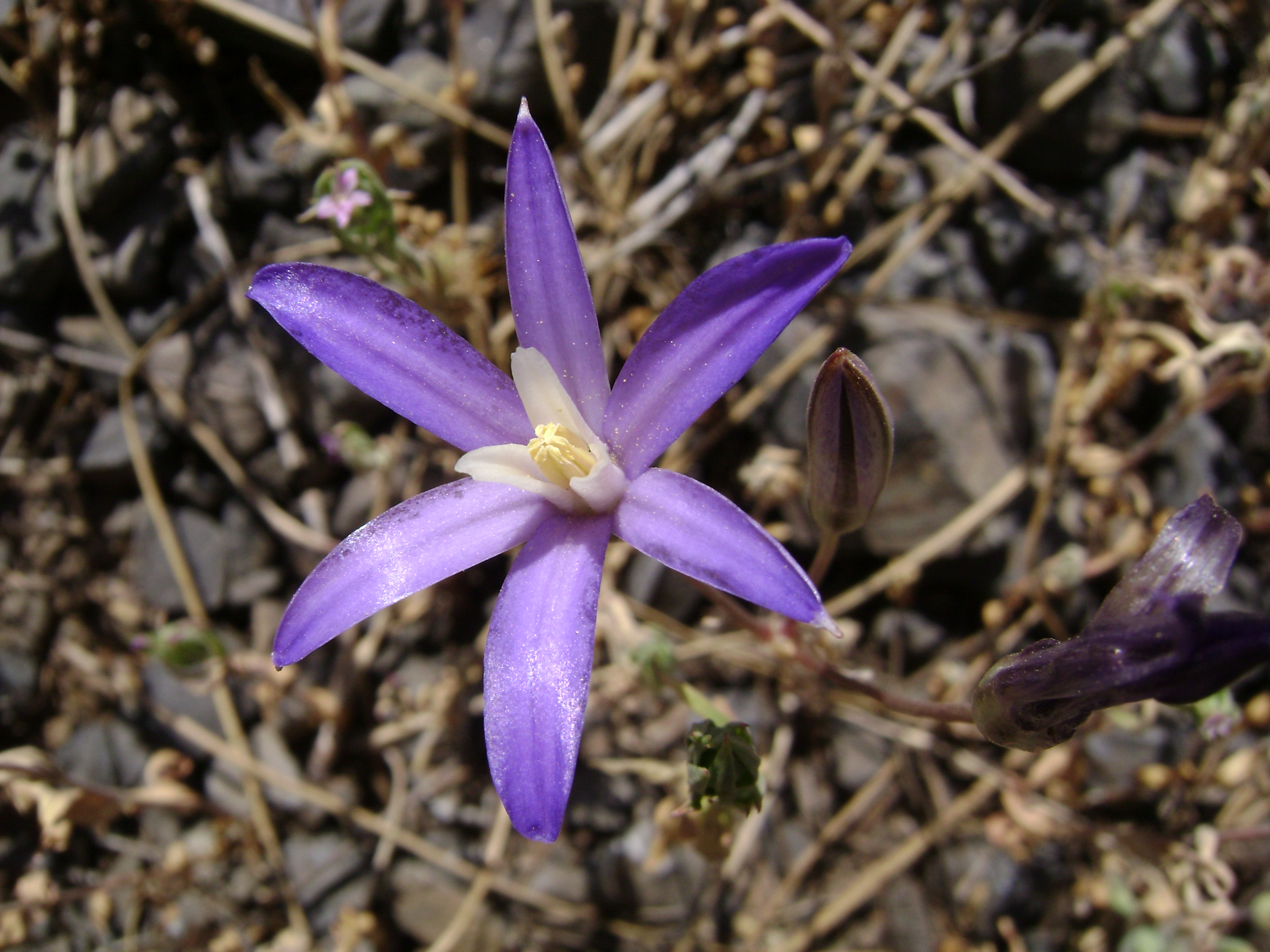 Brodiaea coronaria in Klickitat County Washington